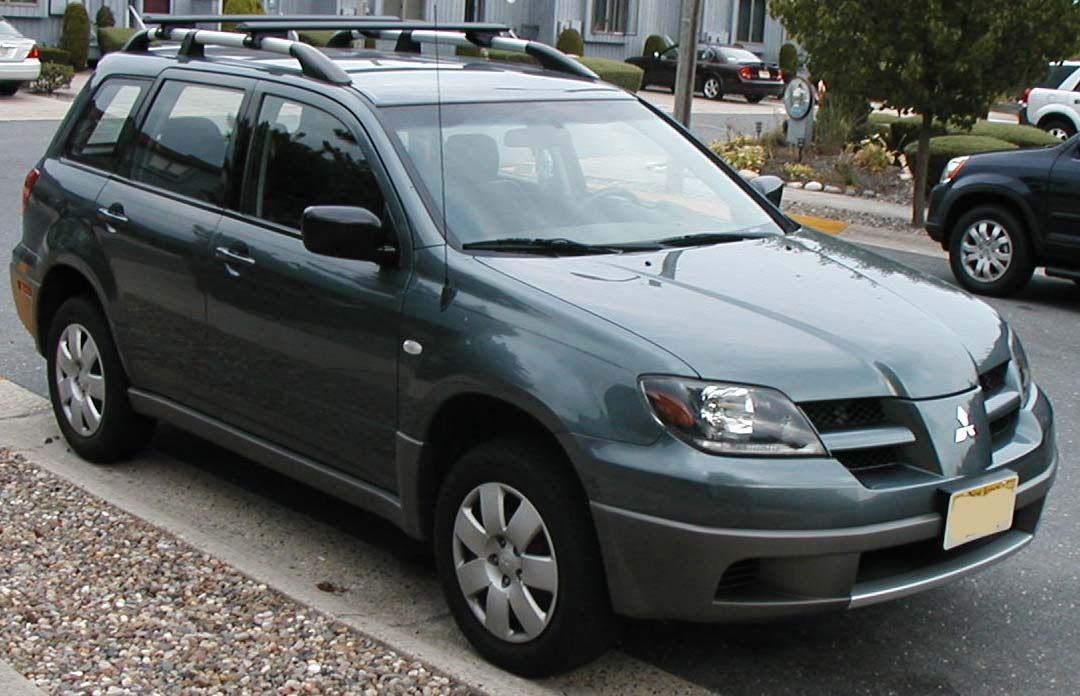 2003-2006 Mitsubishi Outlander photographed in USA.